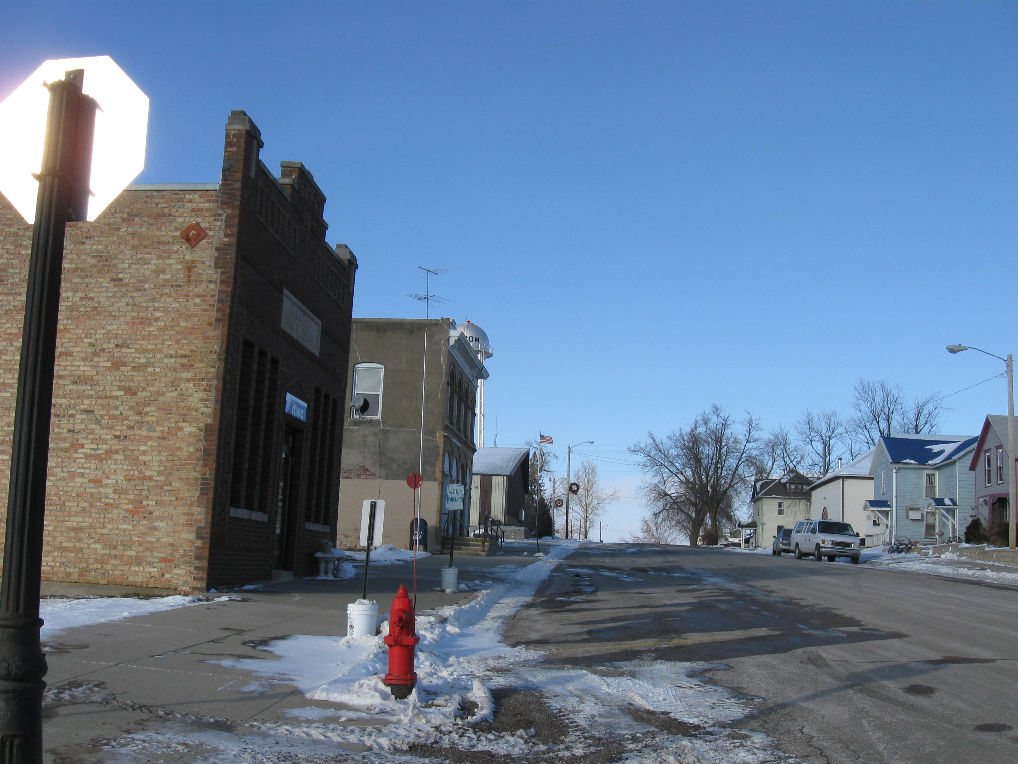 Billwhittaker (talk) 14:42, 8 December 2008 (UTC) Malcom, Iowa